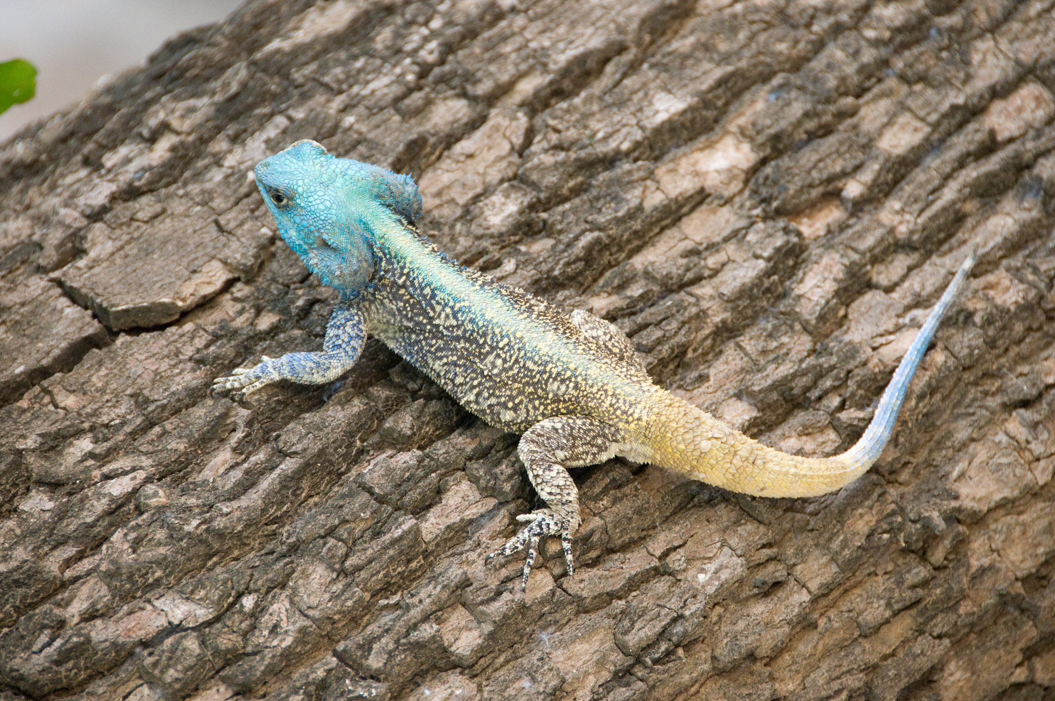 Southern Tree Agama (Acanthocercus atricollis) Dysmorodrepanis 23:09, 28 May 2008 (UTC)